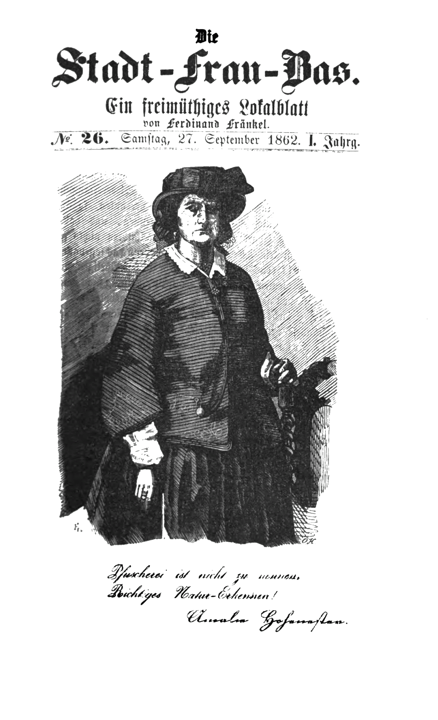 Amalie Hohenester (Birth name: Amalie Nonnenmacher; 1827–1878), German physician (alternative medicine)